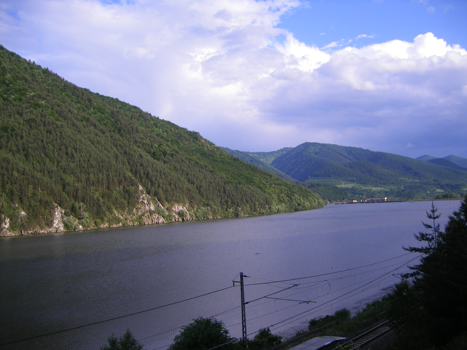 Ratkovo - Krpeľany reservoir on the Váh River